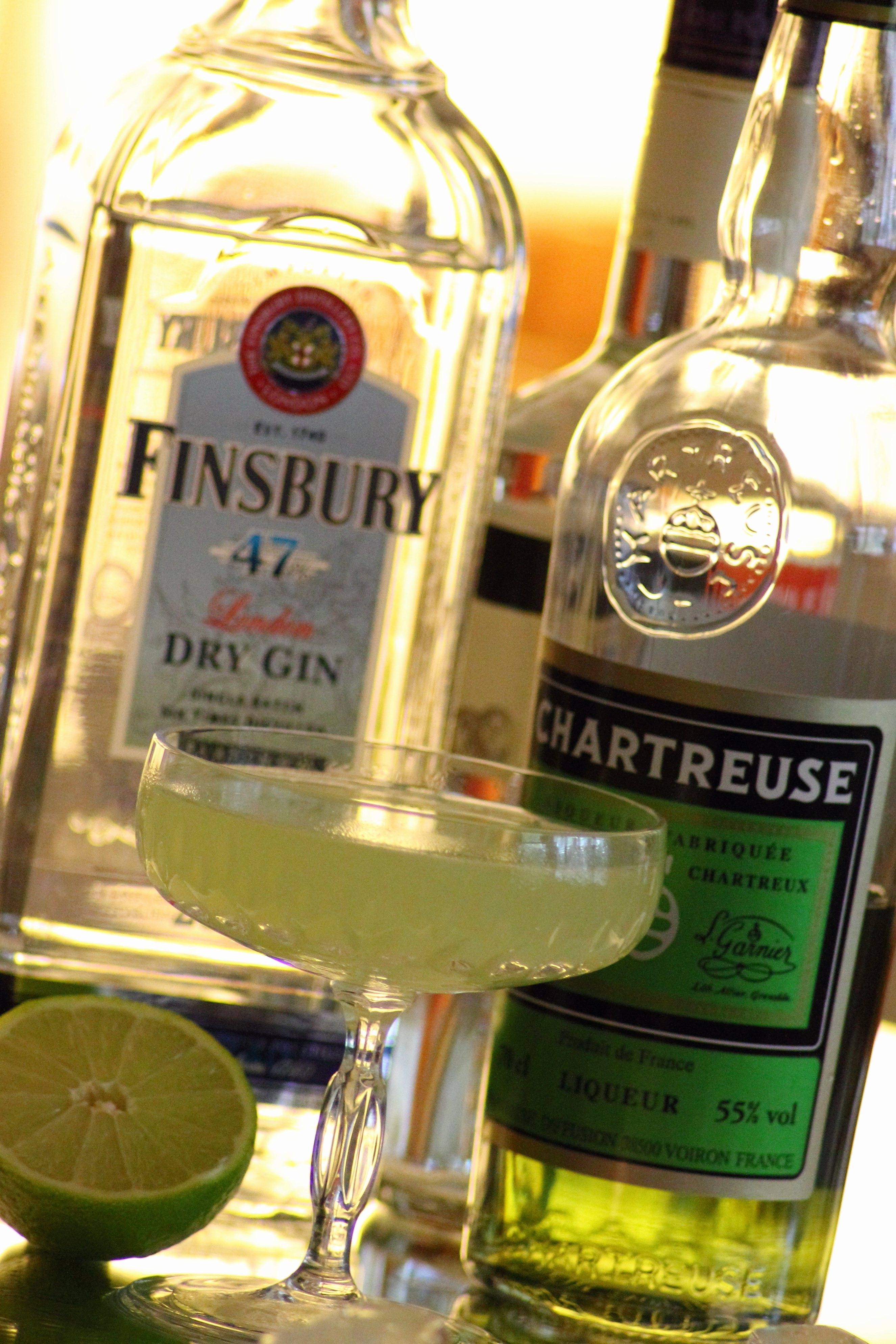 Classic Last Word cocktail.